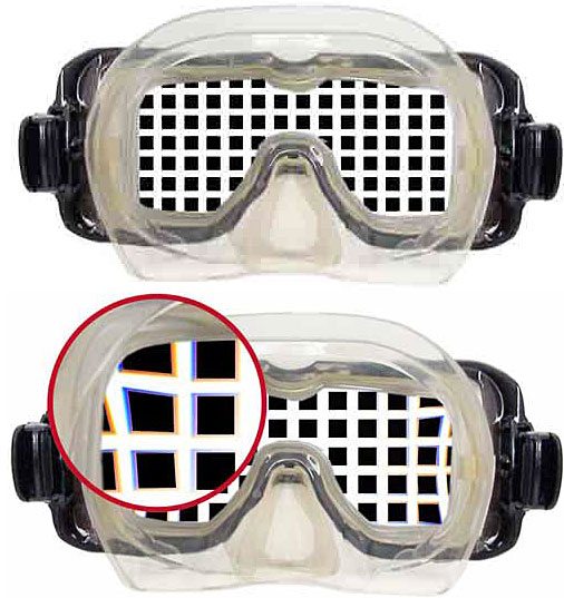 Jon Kranhouse, author